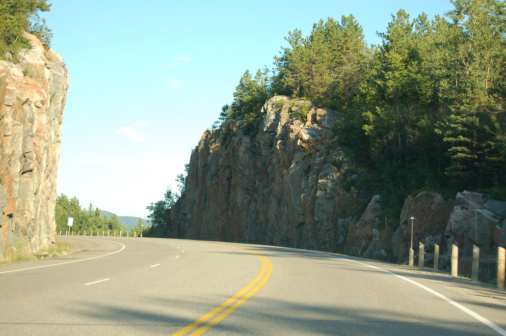 Highway 17 divides mountains as it hugs the coastline of Lake Superior between Thunder Bay and Wawa Camera: Nikon D50 License on Flickr (2011-03-06): CC-BY-SA-2.0